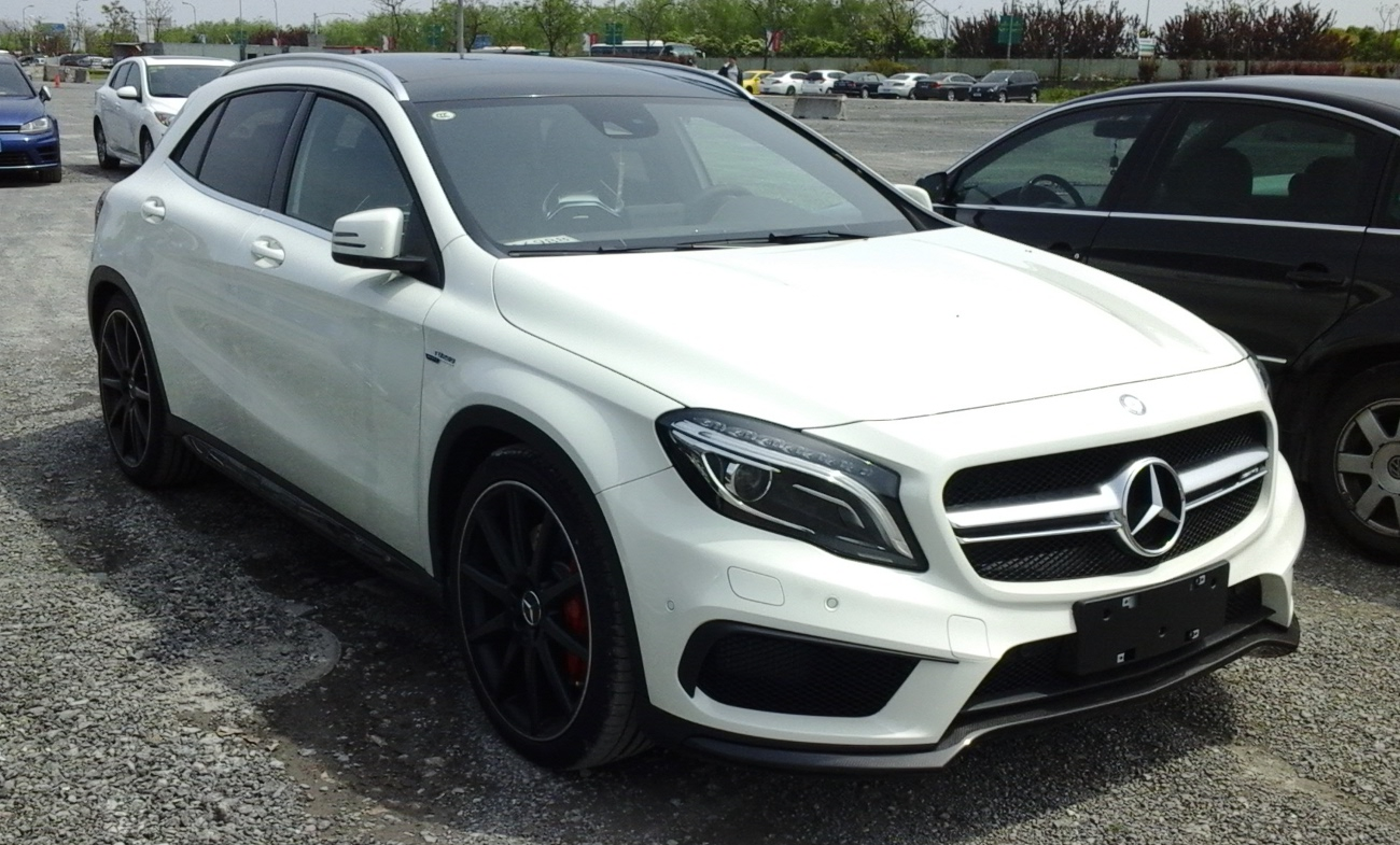 Mercedes-Benz GLA X156 45 AMG photographed in Anting, Shanghai municipality, China.